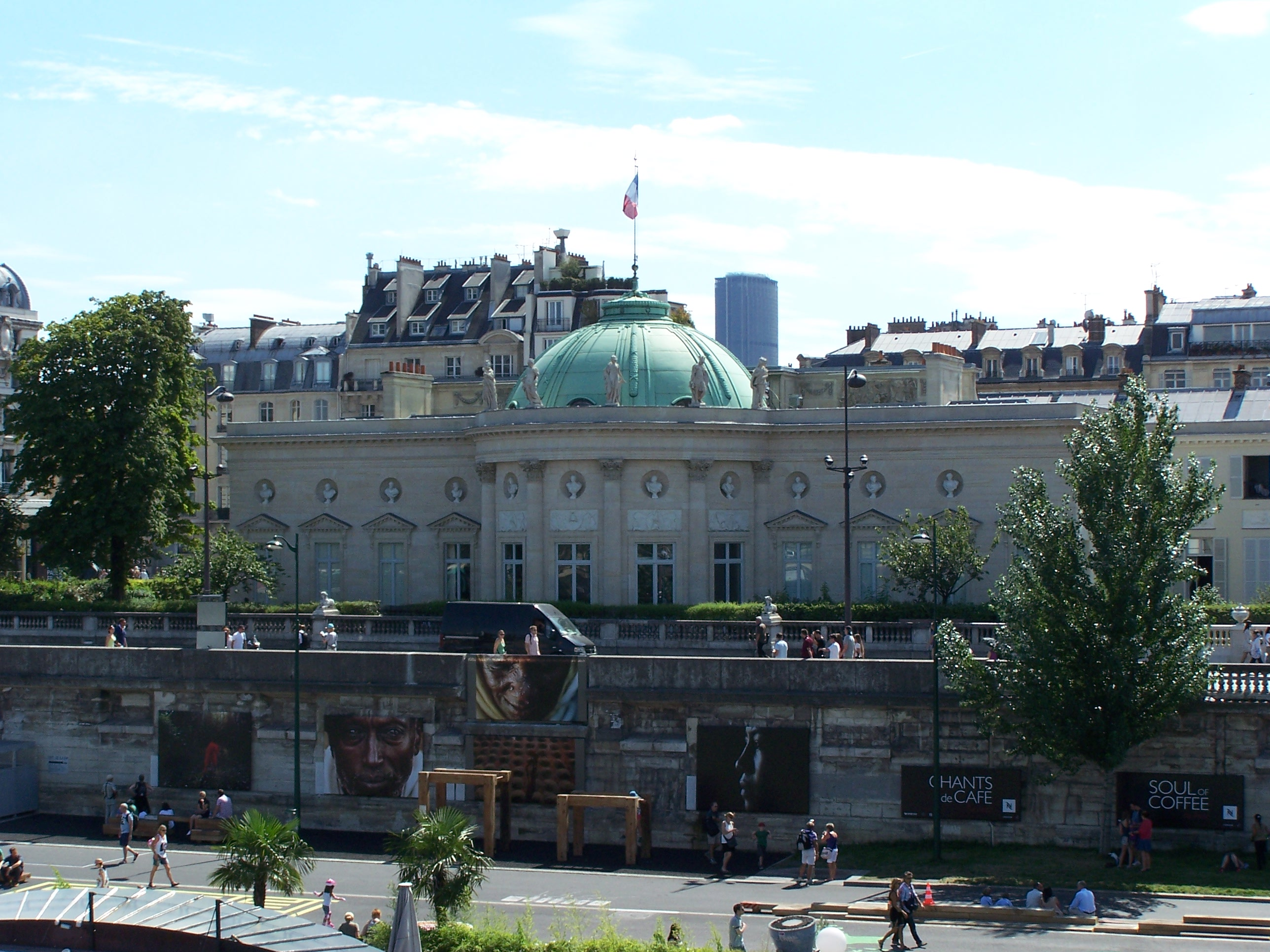 Bâtiment de la Grande Chancellerie de la Légion d'honneur, quai Anatole-France, à Paris